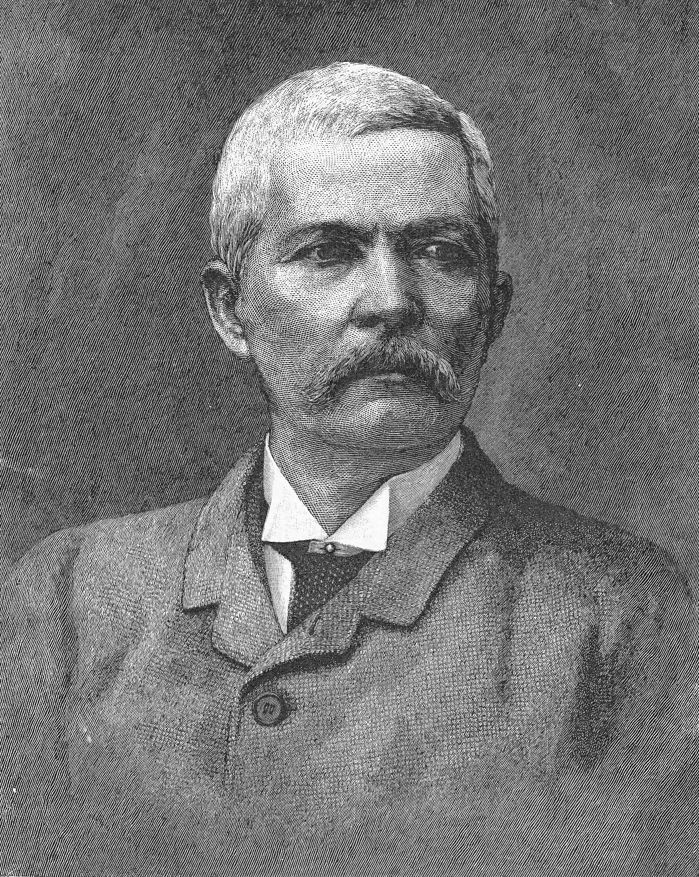 Portrait of Sir Henry Morton Stanley